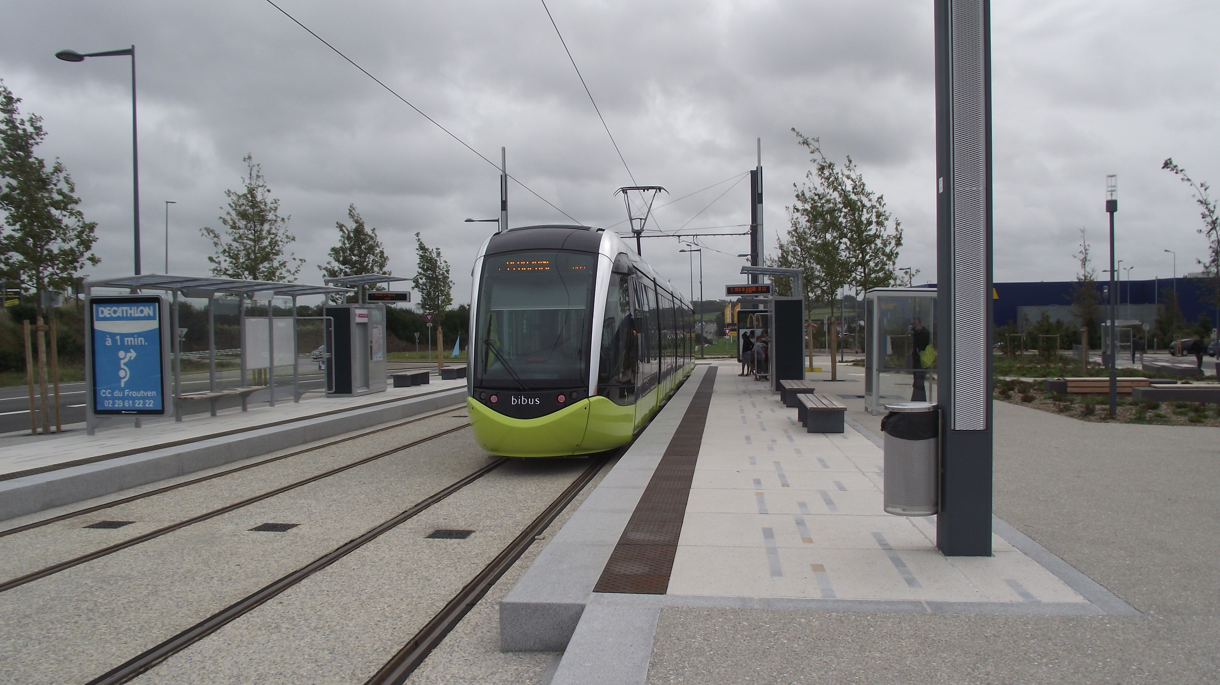 Tram endpoint Porte de Guipavas in Brest